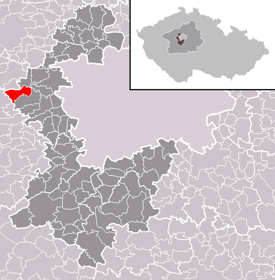 Location of Ptice municipality within Prague-West District and administrative area of Černošice as a Municipality with Extended Competence.